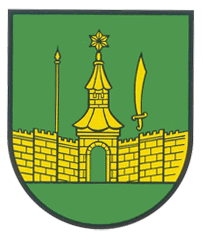 Old coat of arms of Novhorod-Siverskyi